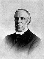 John Mark King (1829-1899) Moderator of the General Assembly of the Presbyterian Church in Canada in 1883 and Principal of Manitoba College (now the University of Winnipeg) from 1883 until his death. He was interested in public charities such as the Children’s Home and the Relief Society. He presided over the annual meeting of the Winnipeg General Hospital for many years.